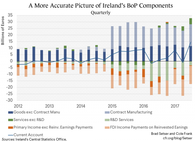 Shows the effect of Apple's 2015 "leprechaun economics" restructuring on Ireland's overall economic statistics.